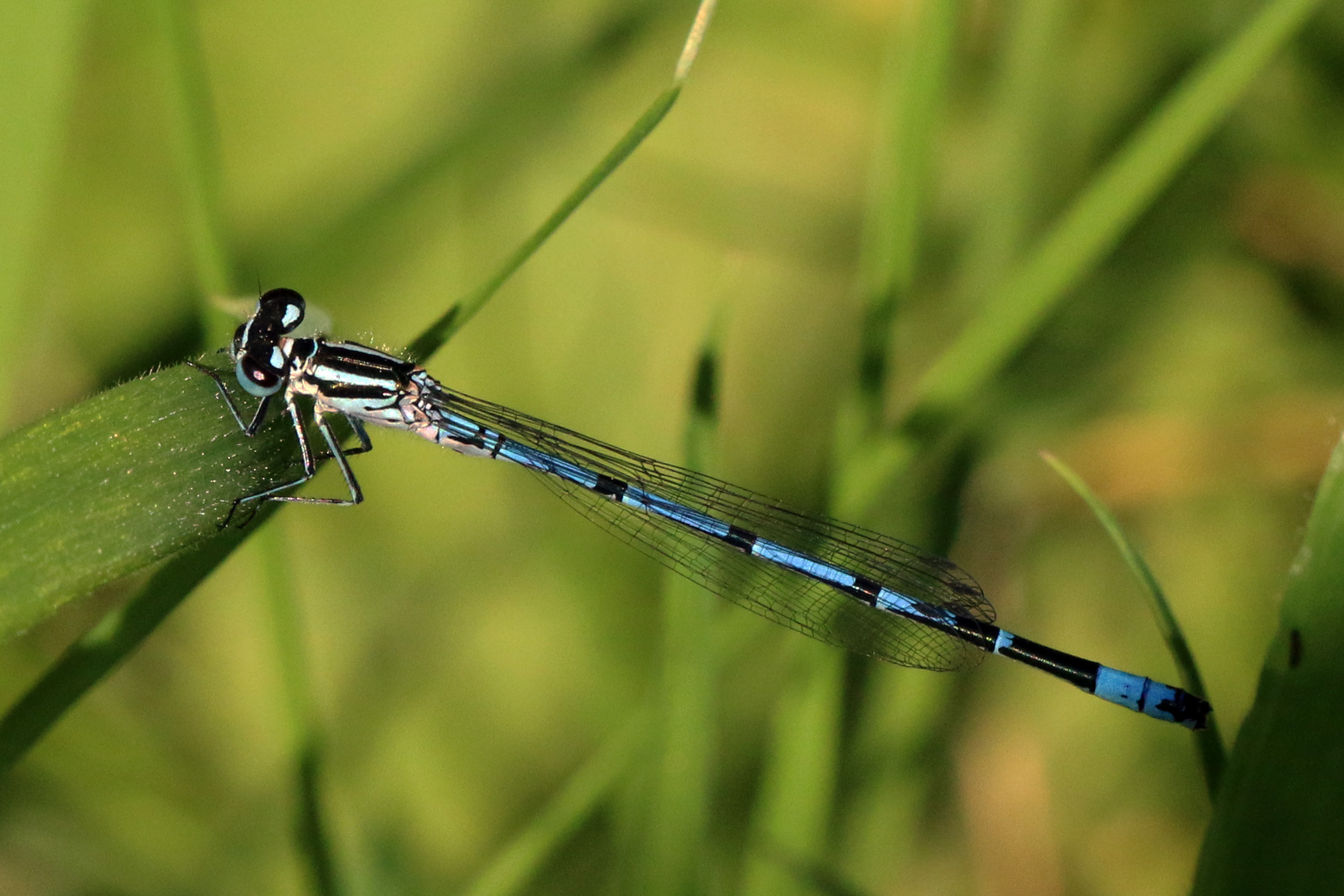 Azure damselfly (Coenagrion puella) male, Leek Wootton, Warwickshire